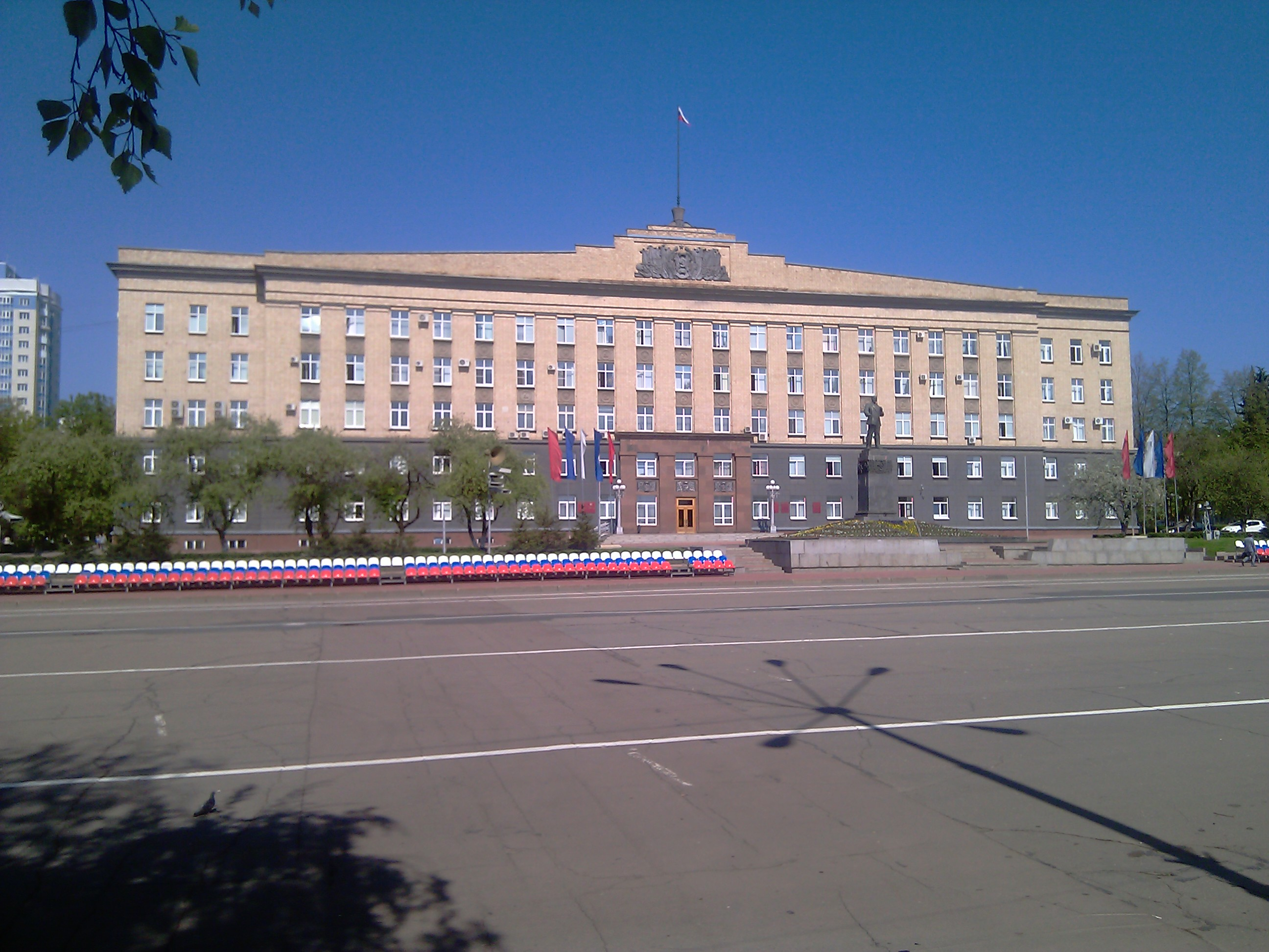 Building of the Administration of Oryol Oblast